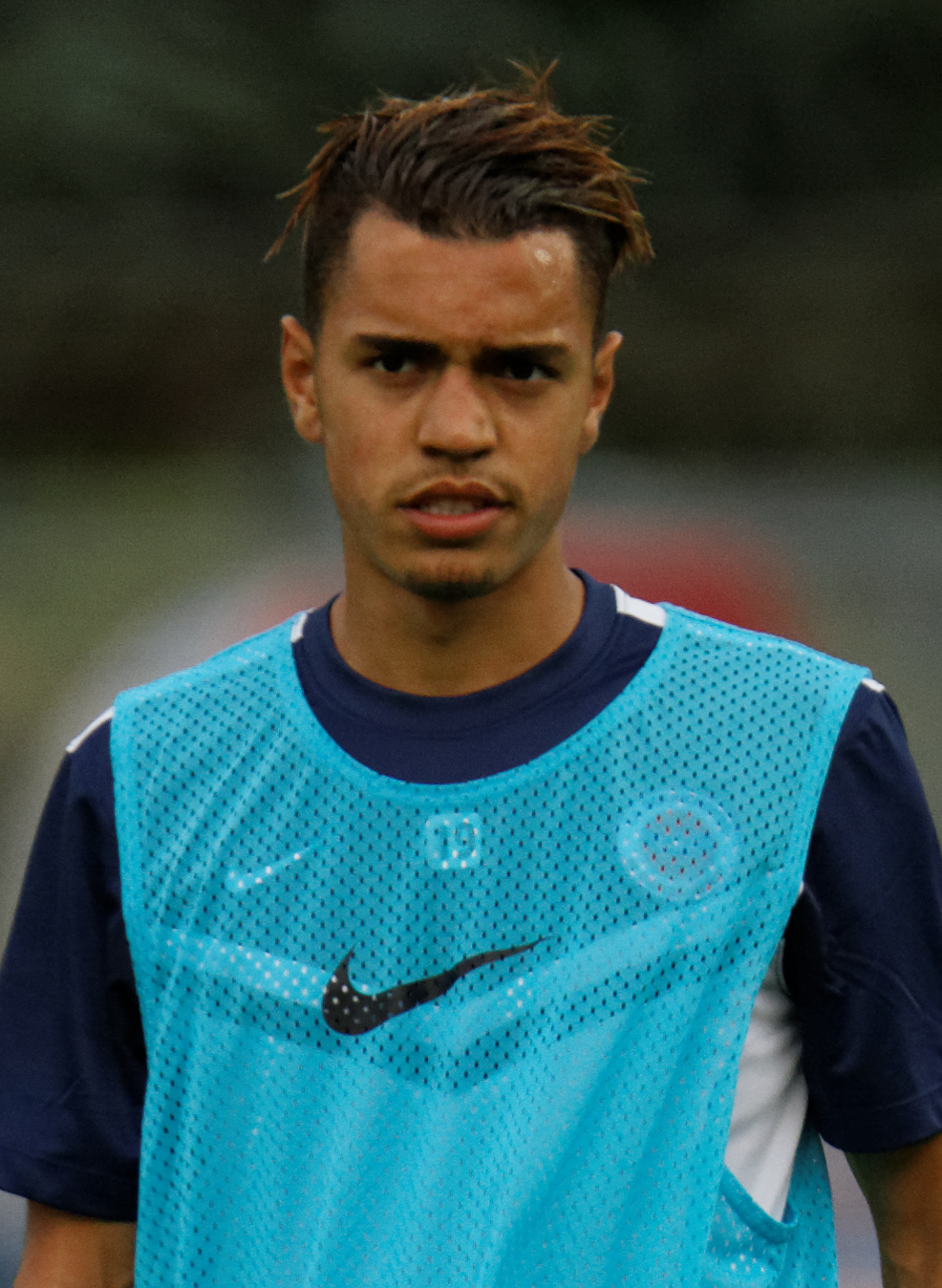 Créteil vs Châteauroux, 8th August 2014.